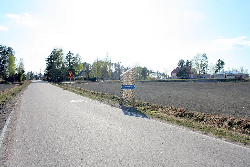 The view to the village of Pennala, which belongs to the southern part of the town of Orimattila in Finland.